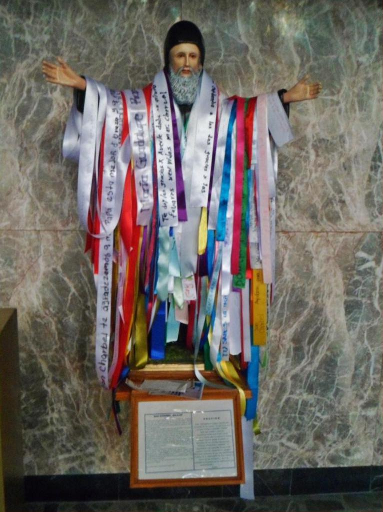 Shrine of Our Lady of Perpetual Help, San Luis Potosi city, San Luis Potosi state, Mexico